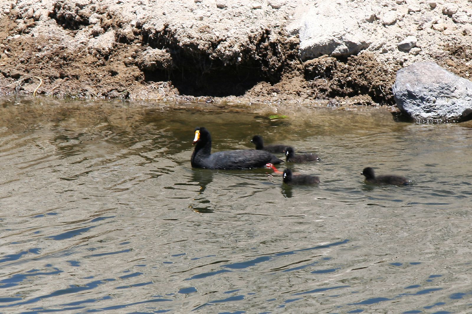 Above 4000m, I could just about manage to hold the camera steady. Note the distinctive red legs. Fulica gigantea